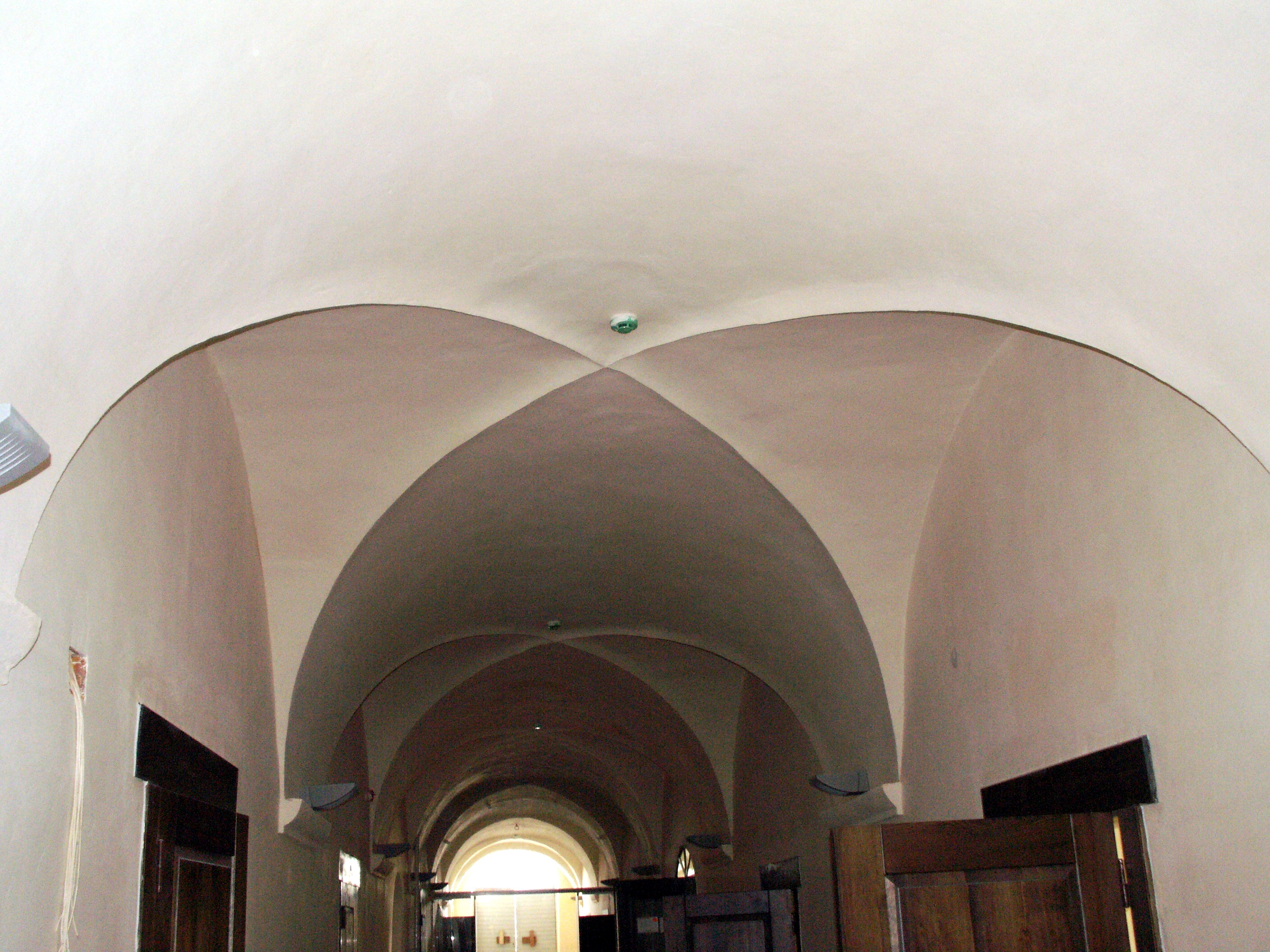 Kražiai collegium